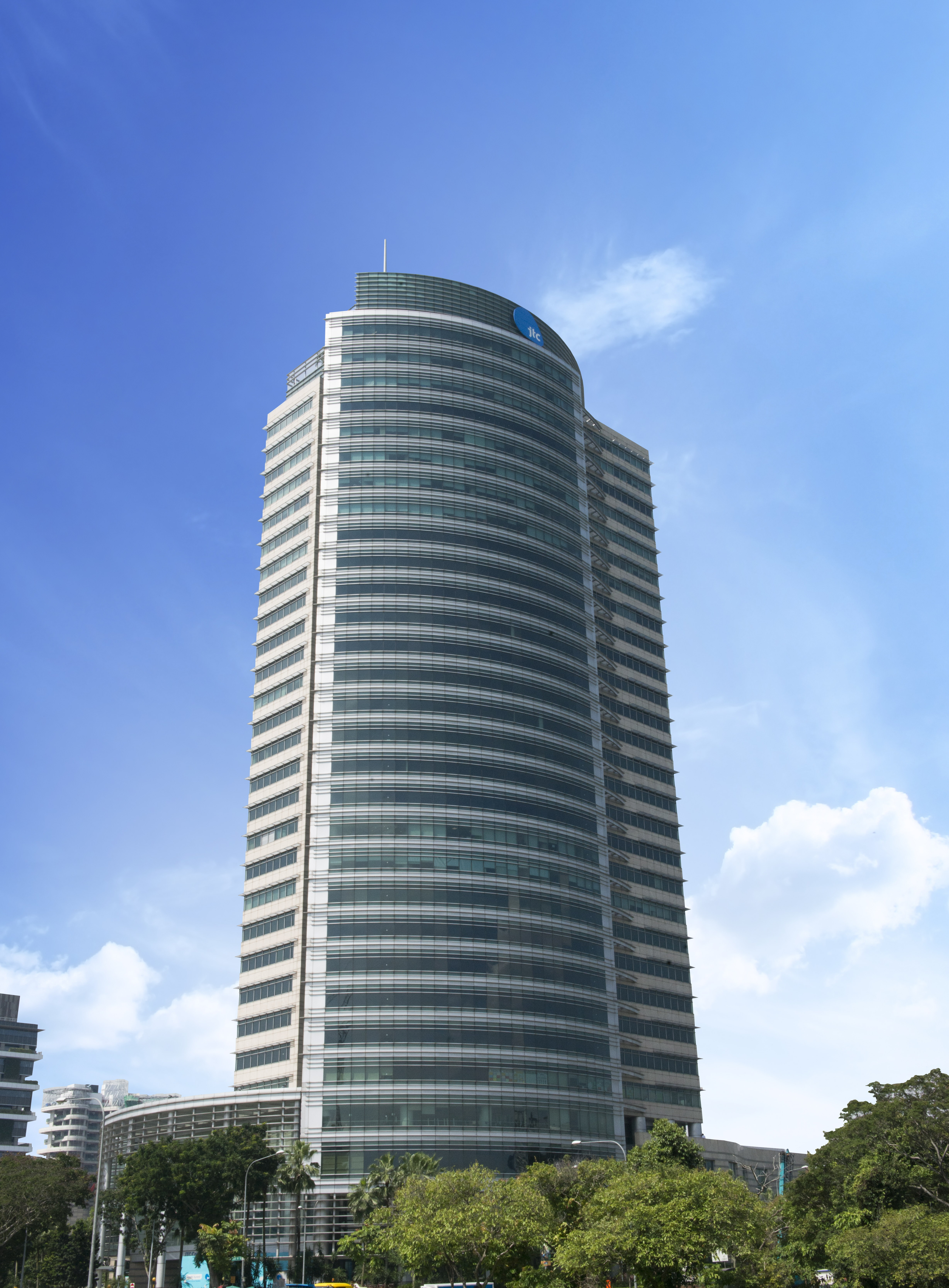 JTC Office